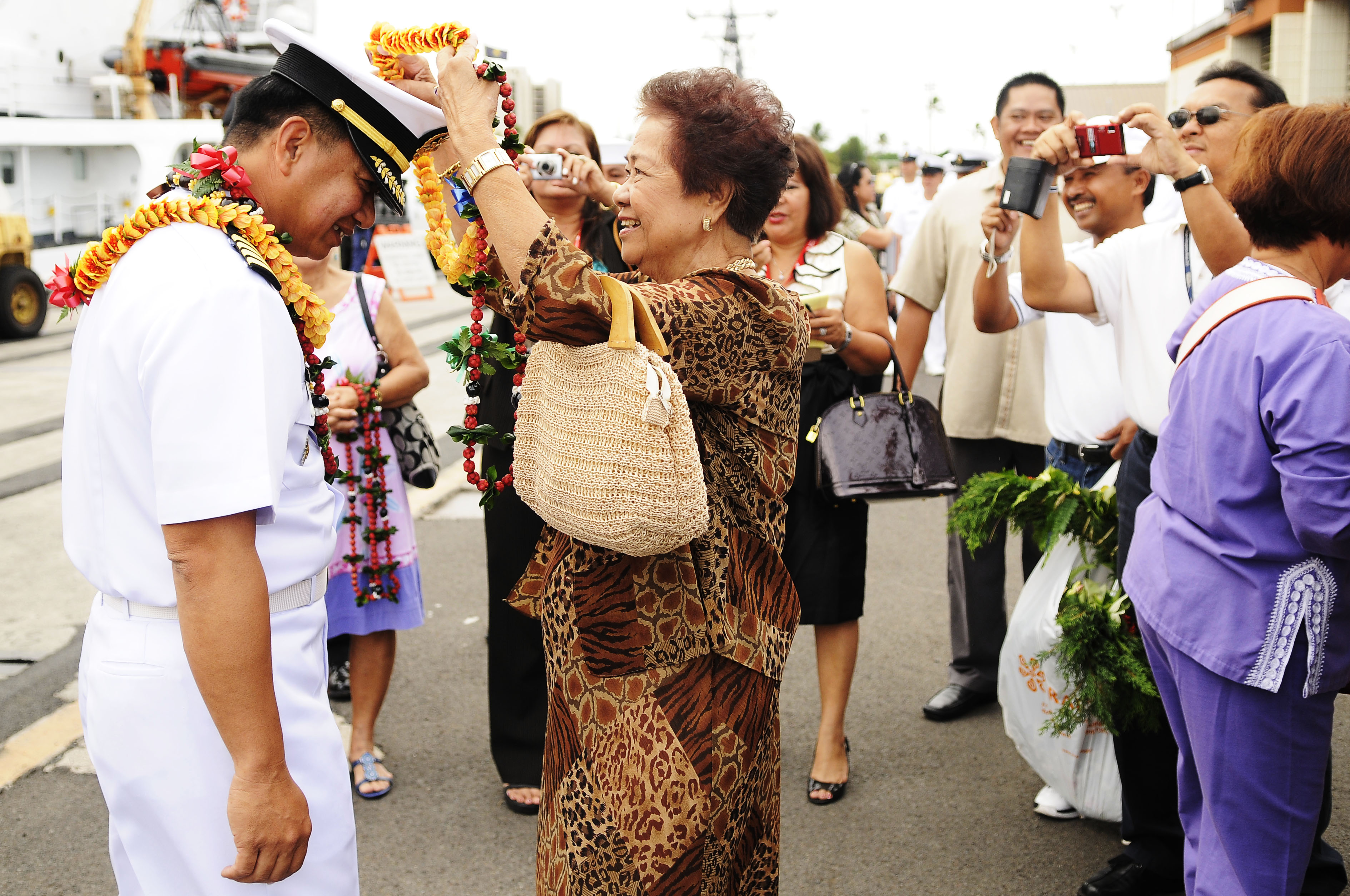 PEARL HARBOR (July 27, 2011) Members of the Hawaii Filipino community welcome Philippine navy Capt. Alberto Cruz, commanding officer of the Philippine navy frigate BRP Gregorio del Pilar (PF-15), which arrived at Joint Base Pearl Harbor-Hickam for a scheduled port visit. The ship, a former U.S. Coast Guard cutter, is en route to the Republic of the Philippines to join the Philippine navy fleet. As a multi-mission surface combatant ship, Gregorio del Pilar becomes the first gas turbine, jet engine-powered vessel in the Philippine navy. (U.S. Navy photo by Mass Communication Specialist 2nd Class Mark Logico/Released)